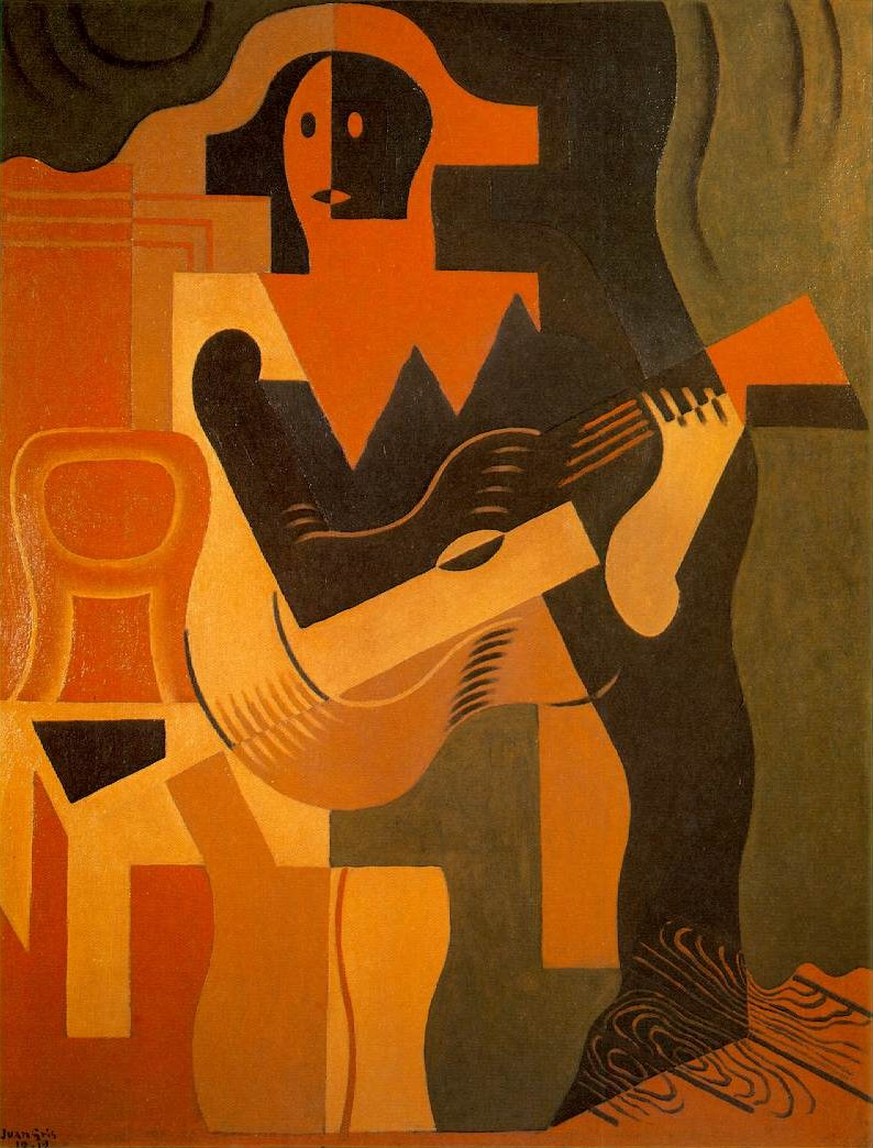 Photograph of Harlequin with Guitar, 1919, oil on canvas by, Juan Gris in the public domain.